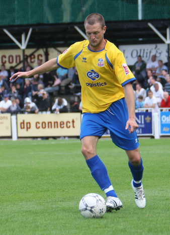 Clint Hill against Bromley.